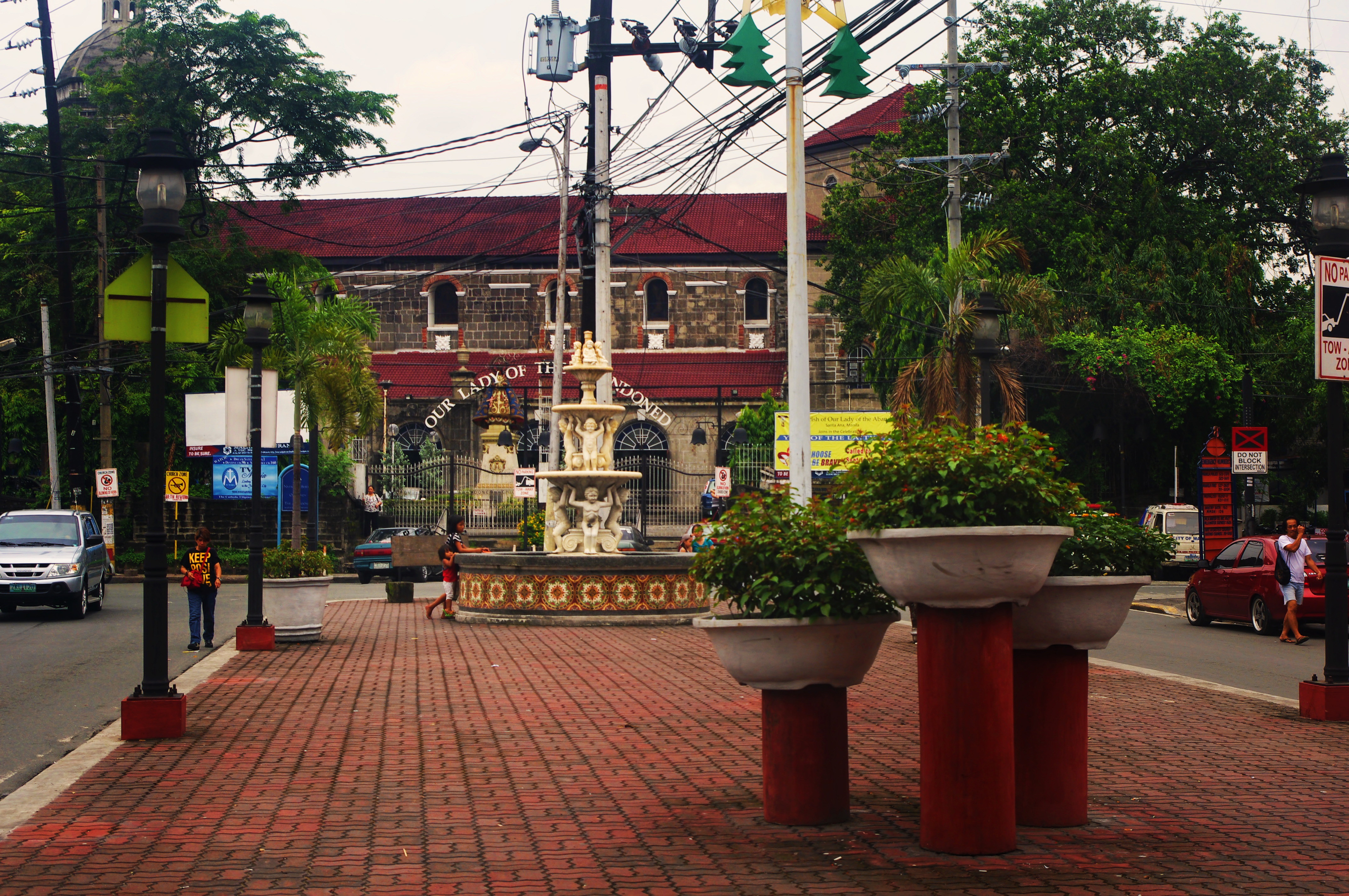 Fountain at Plaza Calderon, Sta. Ana, Manila